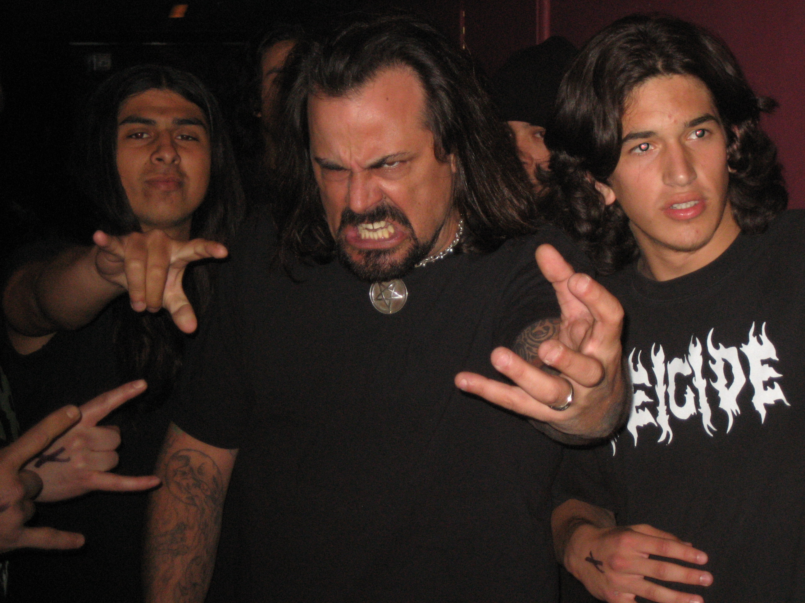 Deicide, Vital Remains, Sadistic Intent at Galaxy Theater 4/5/06